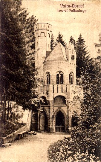 Old picture of the Falkenhain Fountain, later called Sentinela.